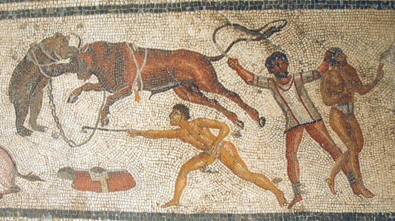 Gladiators fight animals in this scene from the Zliten mosaic.